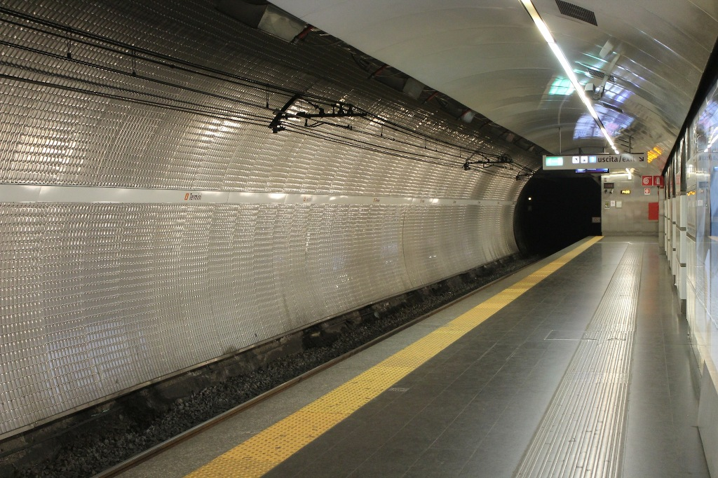 Platform of Termini station of the Line A of the Rome Metro.